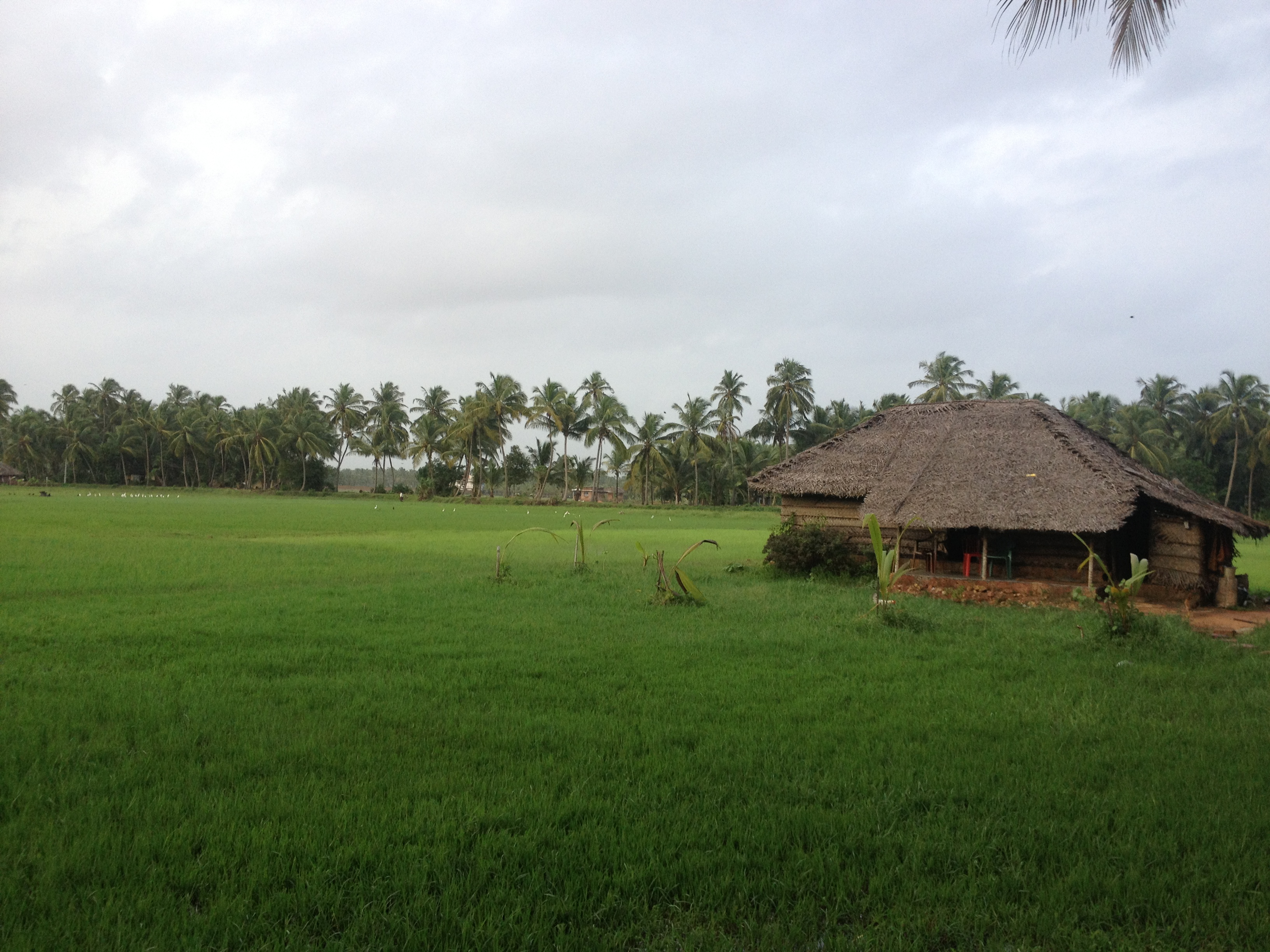 An old traditional home, kaimalasseri Malappuram